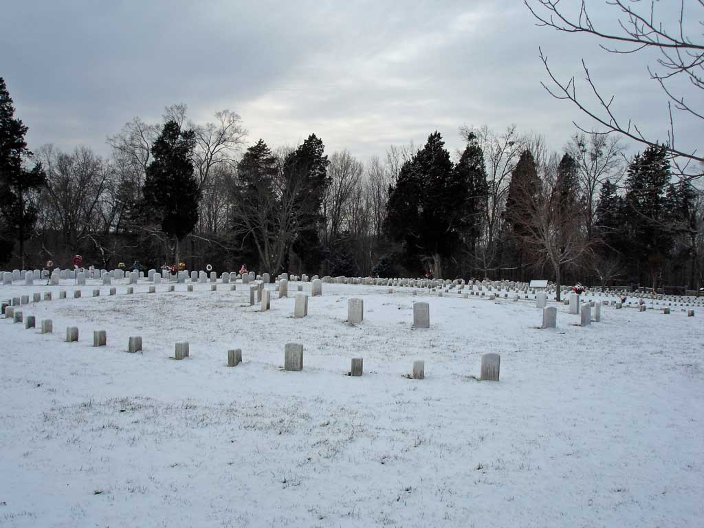 Photographed by Hal Jespersen at Fort Donelson, February 2006.